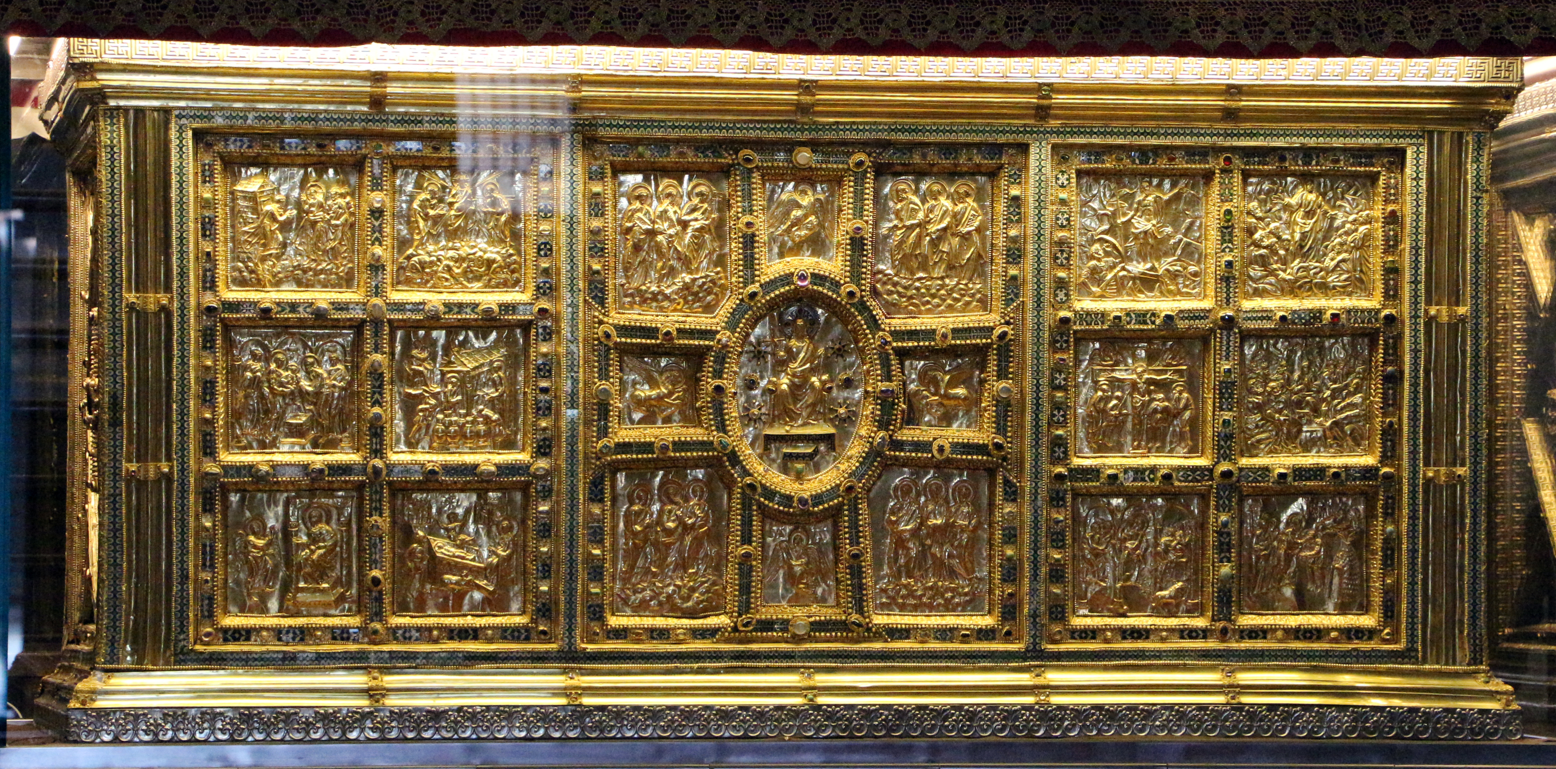 Sant'Ambrogio Altar